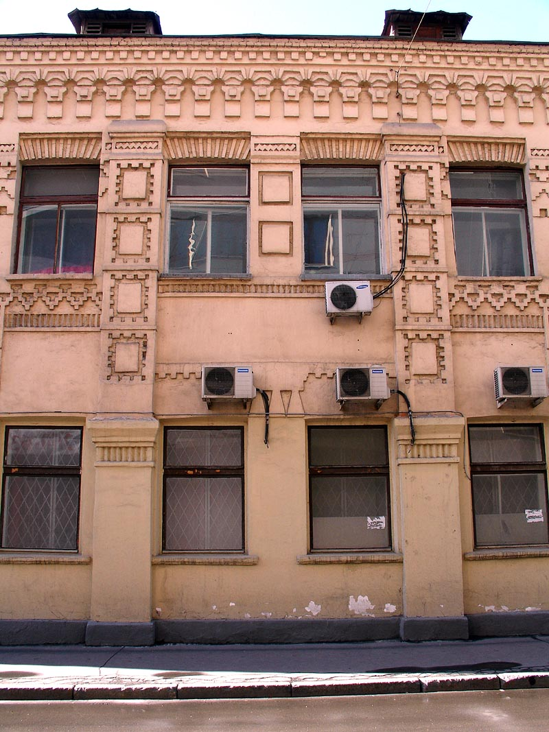 Leontyevsky Lane, Moscow, Russia - Savva Mamontov Printshop by Viktor Hartmann